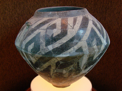 Neolithic grain vessel from the exhibition of Prehistoric Art at "Neolithic Dwellings" Museum, Stara Zagora, Bulgaria. 6th Millennia BCE